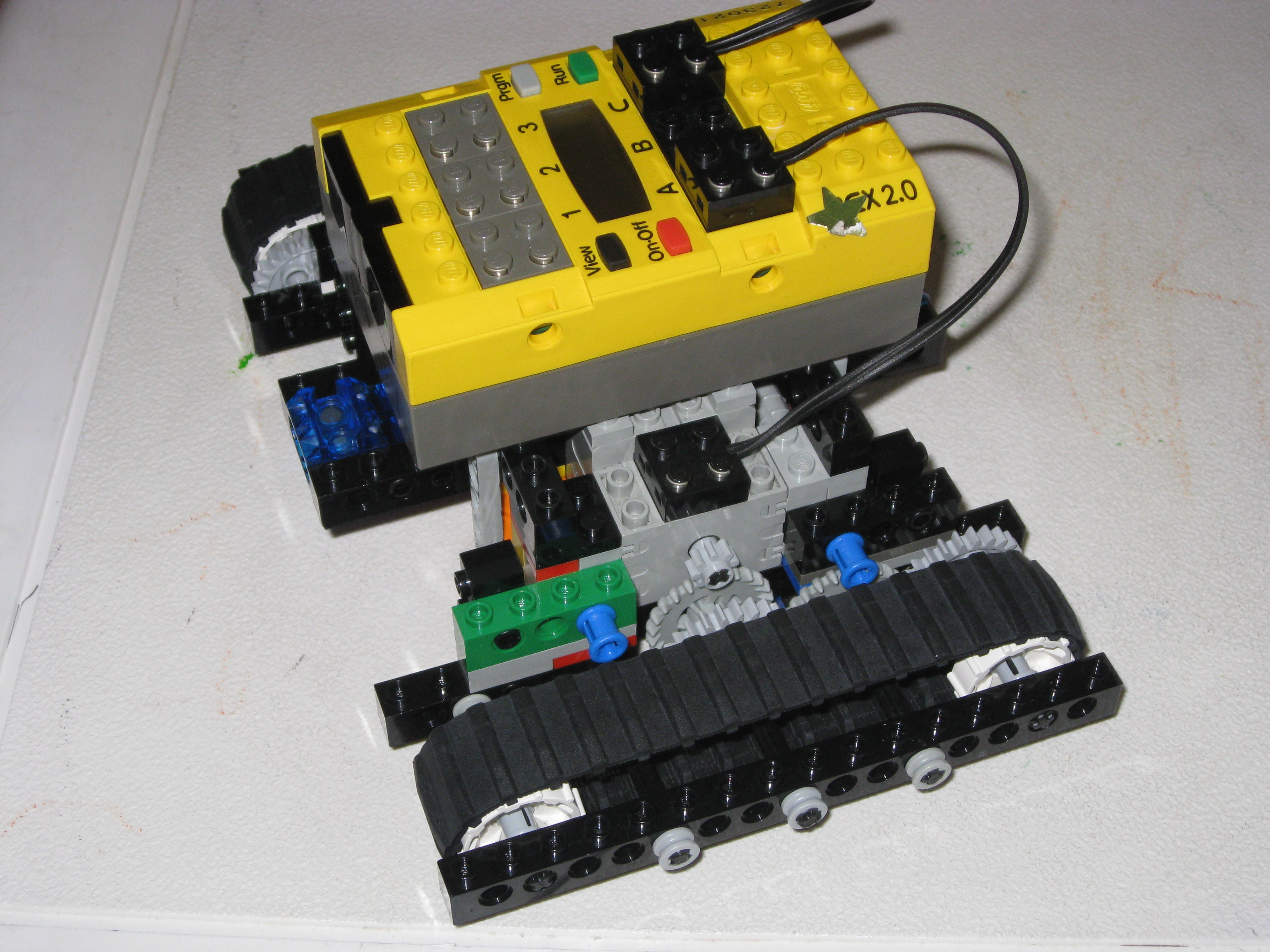 A Lego Mindstorms model called "the Roverbot".